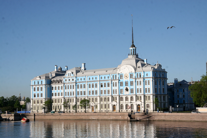 Nakhimovs Navy College